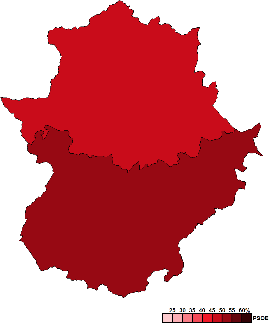 Provincial results for the 1987 Extremaduran regional election.